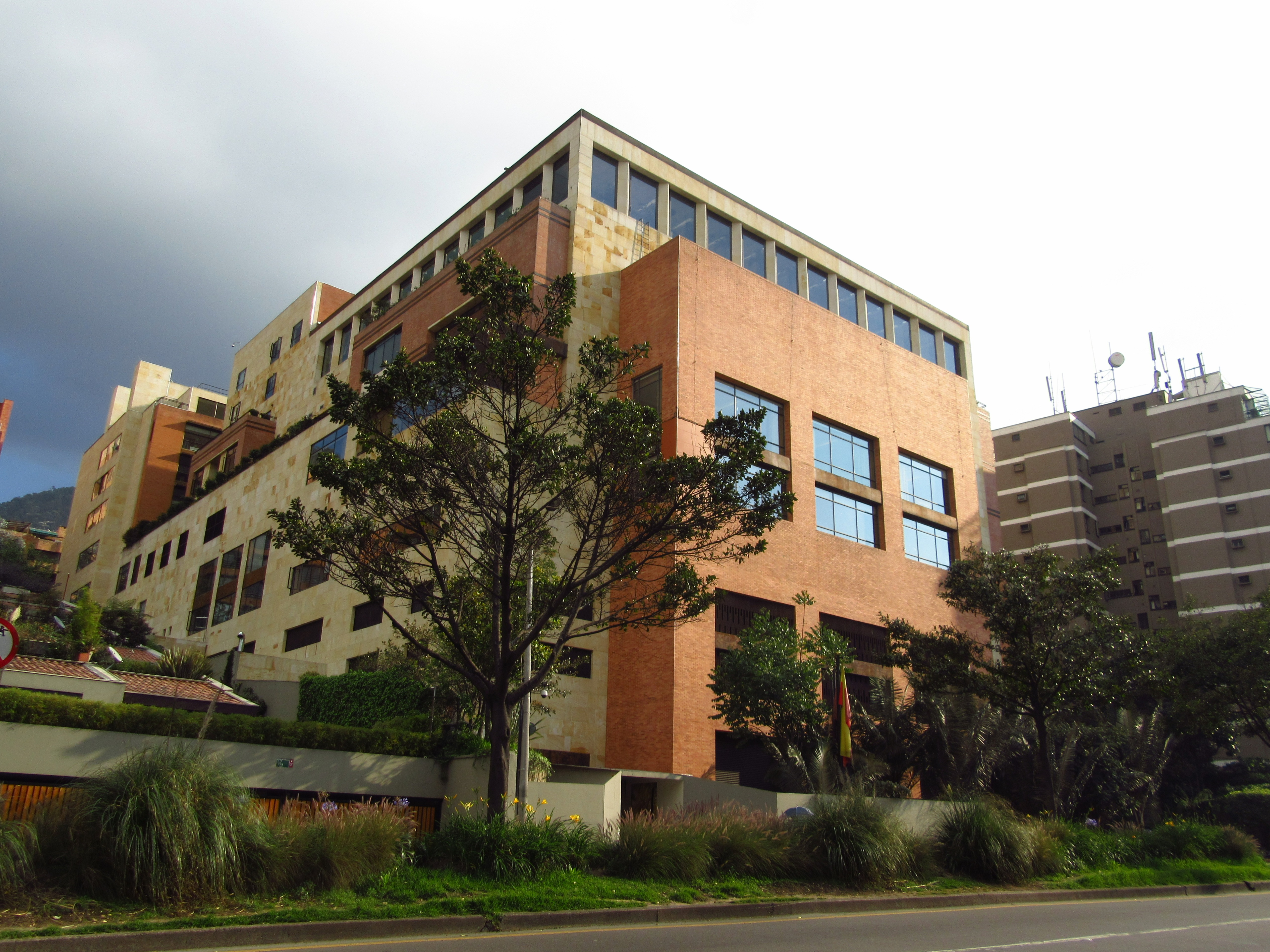 Bogotá